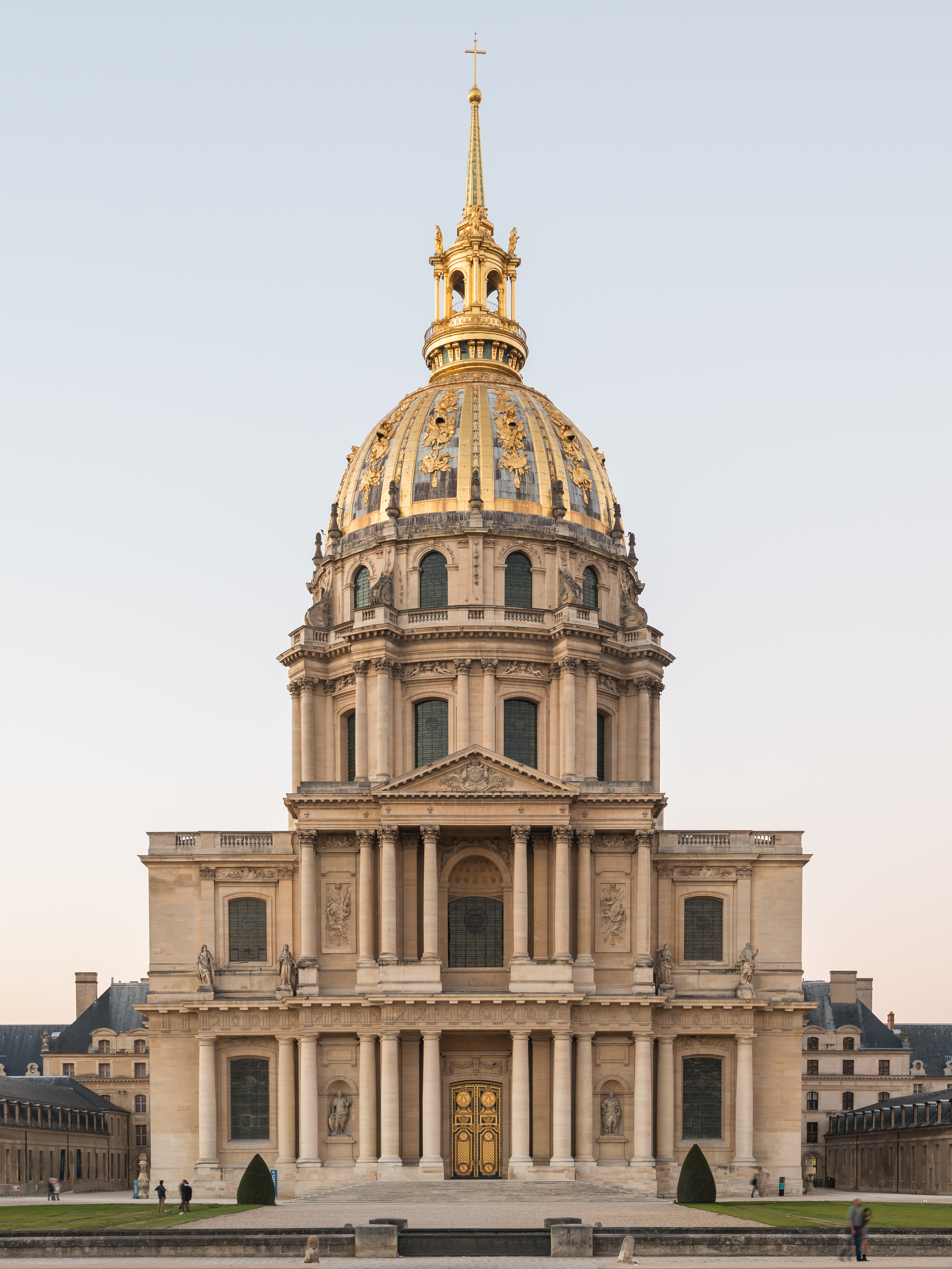 The Cathédrale Saint-Louis-des-Invalides, part of Les Invalides as seen from south, the beginning of Esplanade de Souvenir Français